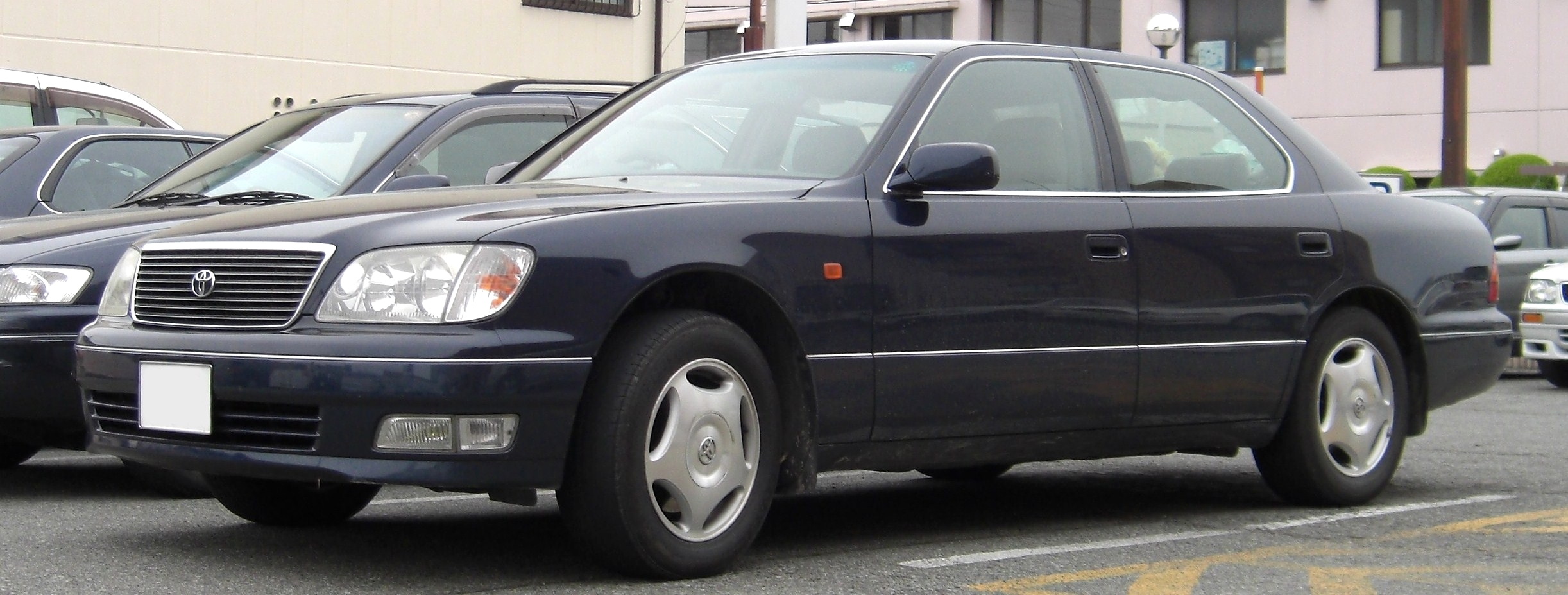 Toyota Celsior